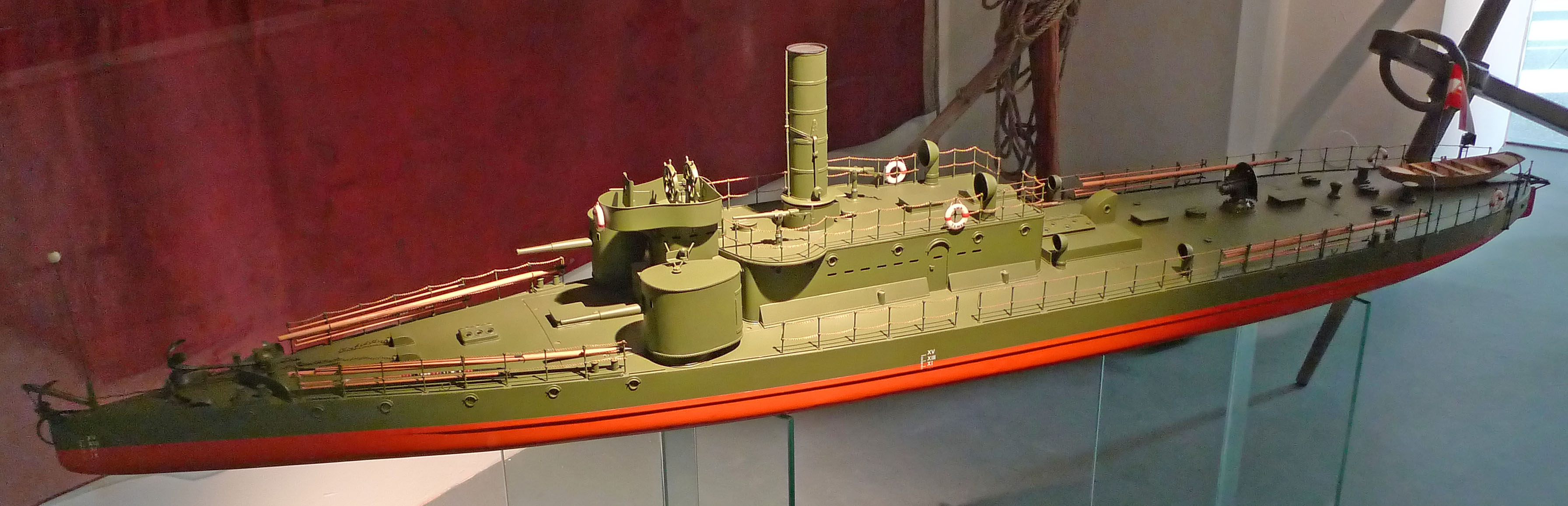 Austro-Hungarian Danube monitor Temes, 1:33 scale model, Heeresgeschichtliches Museum Wien.